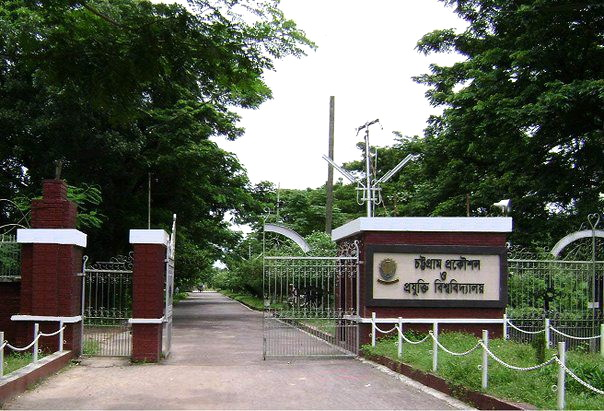 Entrance of CUET